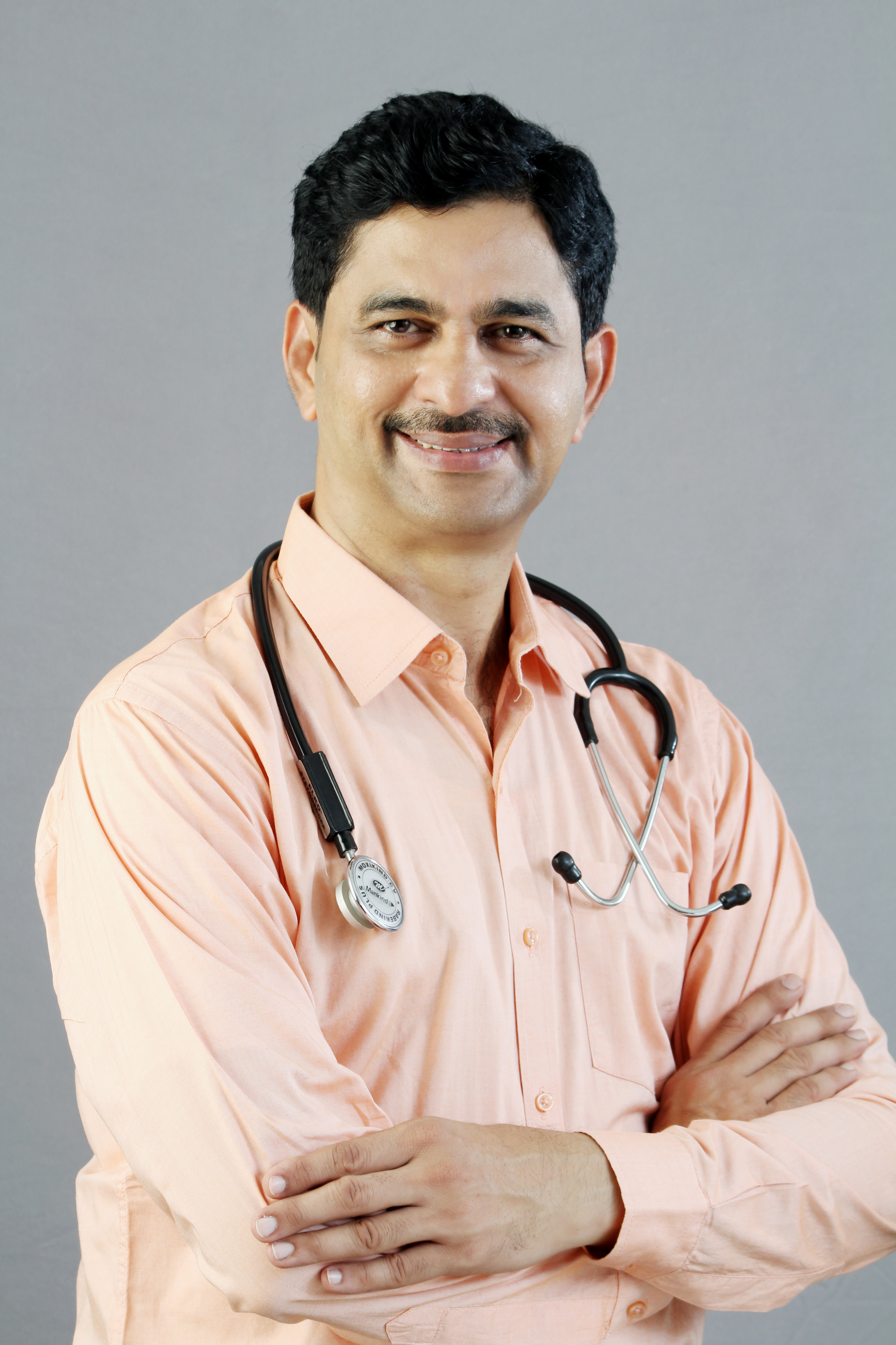 Profile photo of Dr. Sudhir Hegde, at present Co-Convener of BJP Karnataka Medical Wing Dakshina Kannada District. Professor and Head of Department of Ophthalmology at A. J Institute of Medical Sciences, Consultant at A.J Hospital and Research Centre, Mangalore. Also practicing at clinic Sanjeevini at Falnir in Mangalore. President of South Kanara Ophthalmic Society. Is Elected as organising Chairman of South India Ophthalmology Conference to be held on December of 2018. ಕನ್ನಡ: ಡಾ. ಸುಧೀರ್ ಹೆಗ್ಡೆ. ಪ್ರಸ್ತುತ ದಕ್ಷಿಣ ಕನ್ನಡ ಜಿಲ್ಲಾ ಬಿಜೆಪಿಯ ವೈದ್ಯಕೀಯ ಪ್ರಕೋಷ್ಠದ ಸಹ-ಸಂಚಾಲಕರಾಗಿರುವ ಡಾ. ಸುಧೀರ್ ಹೆಗ್ಡೆ, ಮಂಗಳೂರಿನ ಪ್ರತಿಷ್ಠಿತ ವೈದ್ಯಕೀಯ ಶಿಕ್ಷಣ ಸಂಸ್ಥೆಗಳಲ್ಲಿ ಪ್ರಮುಖವಾಗಿರುವ ಎ.ಜೆ. ವೈದ್ಯಕೀಯ ವಿಜ್ಞಾನ ಸಂಸ್ಥೆಯ ನೇತ್ರವಿಜ್ಞಾನ ವಿಭಾಗದ ಮುಖ್ಯಸ್ಥರಾಗಿದ್ದಾರೆ. ಜೊತೆಯಲ್ಲಿ ಎ.ಜೆ. ಆಸ್ಪತ್ರೆ ಮತ್ತು ಸಂಶೋಧನಾ ಕೇಂದ್ರದಲ್ಲಿ ತಜ್ಞ ವೈದ್ಯರಾಗಿ ಕಾರ್ಯನಿರ್ವಹಿಸುತ್ತಿದ್ದಾರೆ.